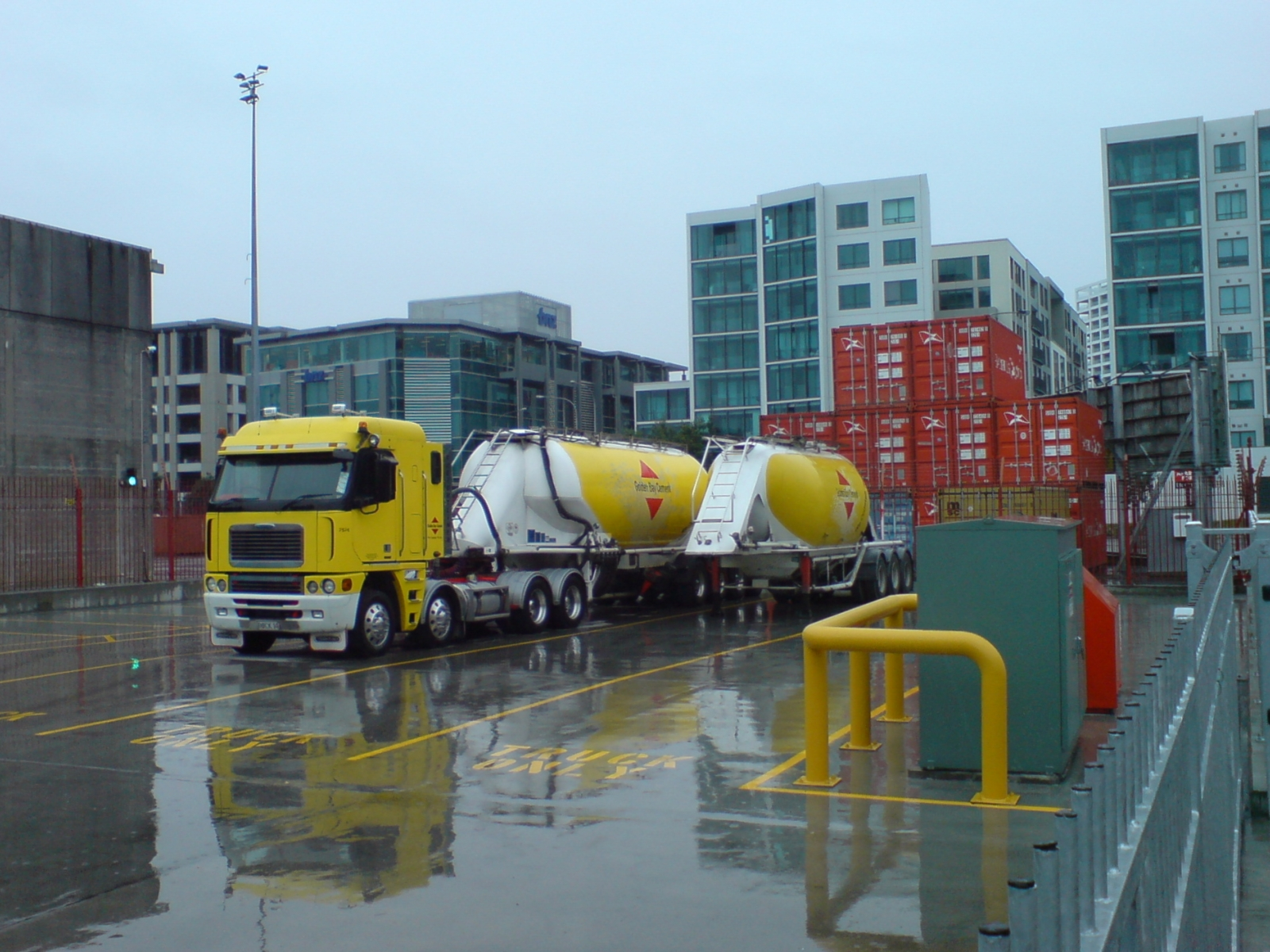 A Golden Bay Cement truck in Auckland, New Zealand. Looking south towards Quay Street.